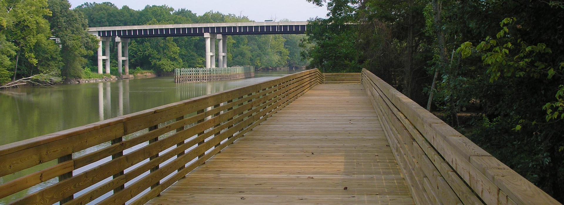 Boardwalk along Roanoke River in Williamston, NC